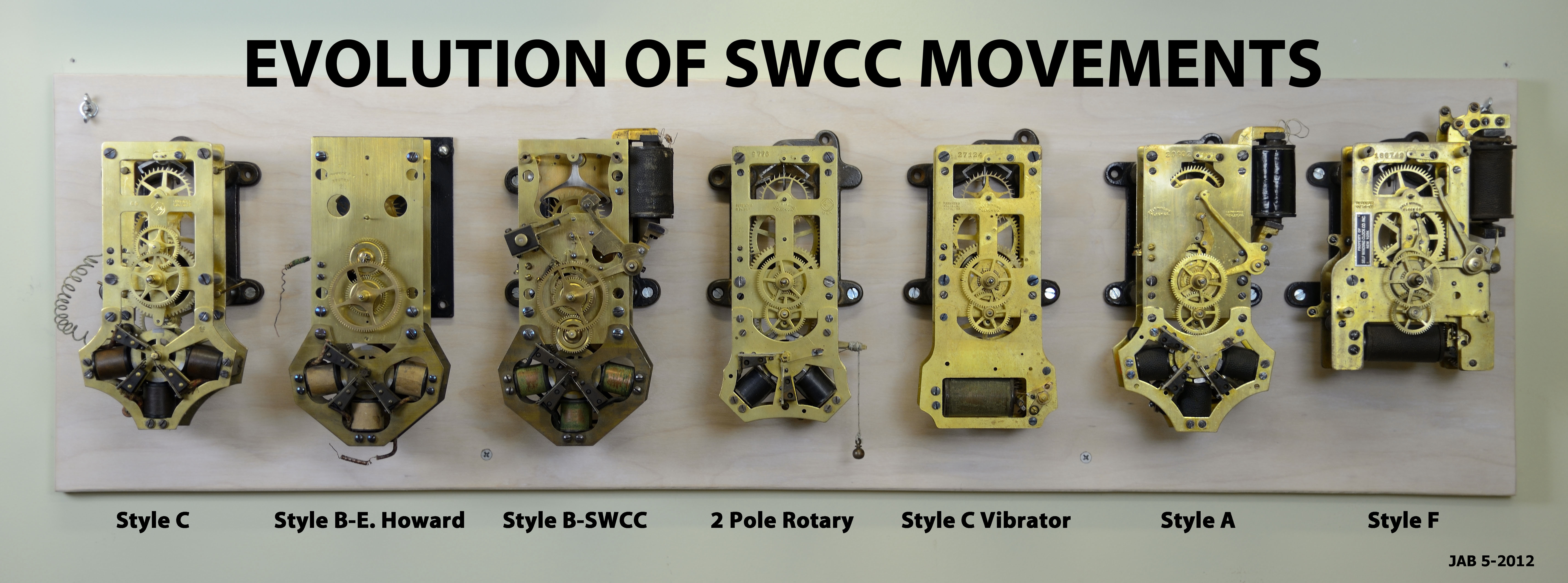 Photograph of a display of the 7 major Self Winding Clock Company movements.